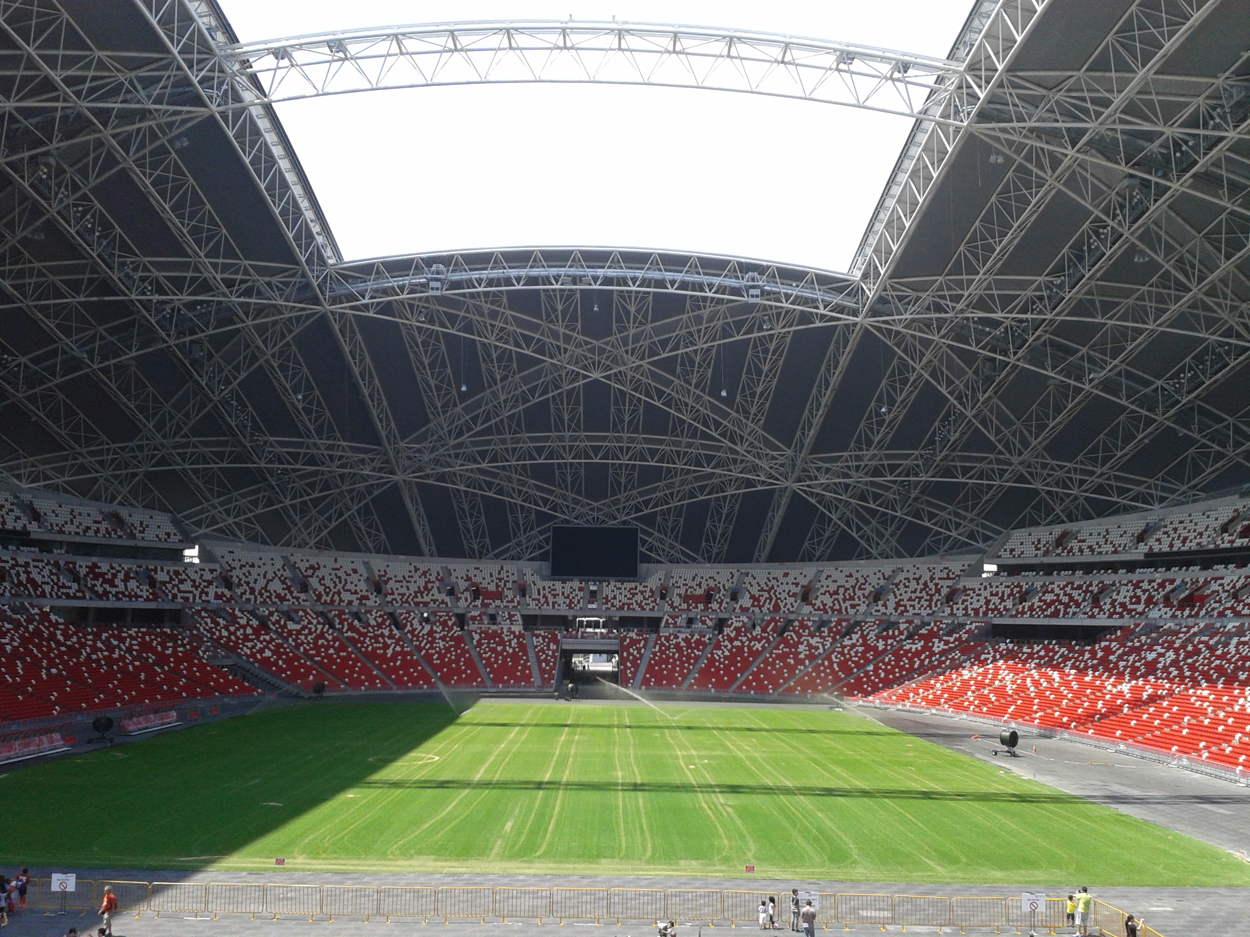 Inside the Singapore National Stadium